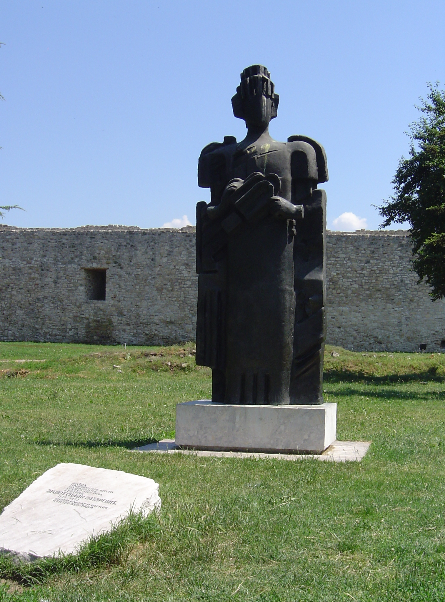 Monument to Serbian despot Stefan Lazarević, in Kalemegdan. The inscription says: I've found The most beautiful place Since ancient times The great town Belgrade despot Stefan Lazarević 1377-1427 Serbian ruler and poet builder of Belgrade